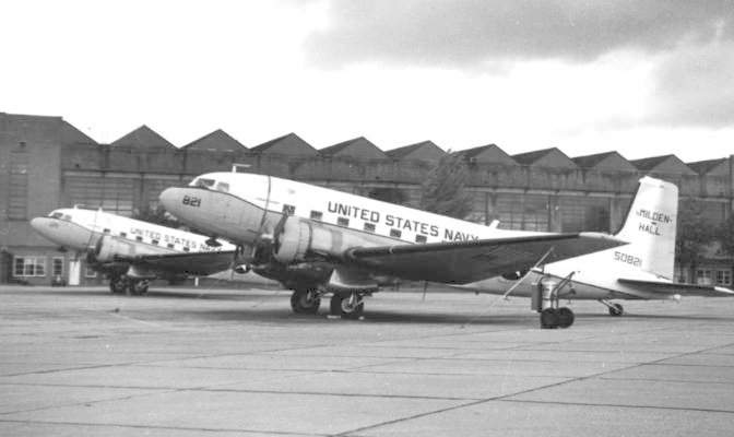 US Navy C-117D Super Dakotas of NAF Mildenhall, UK